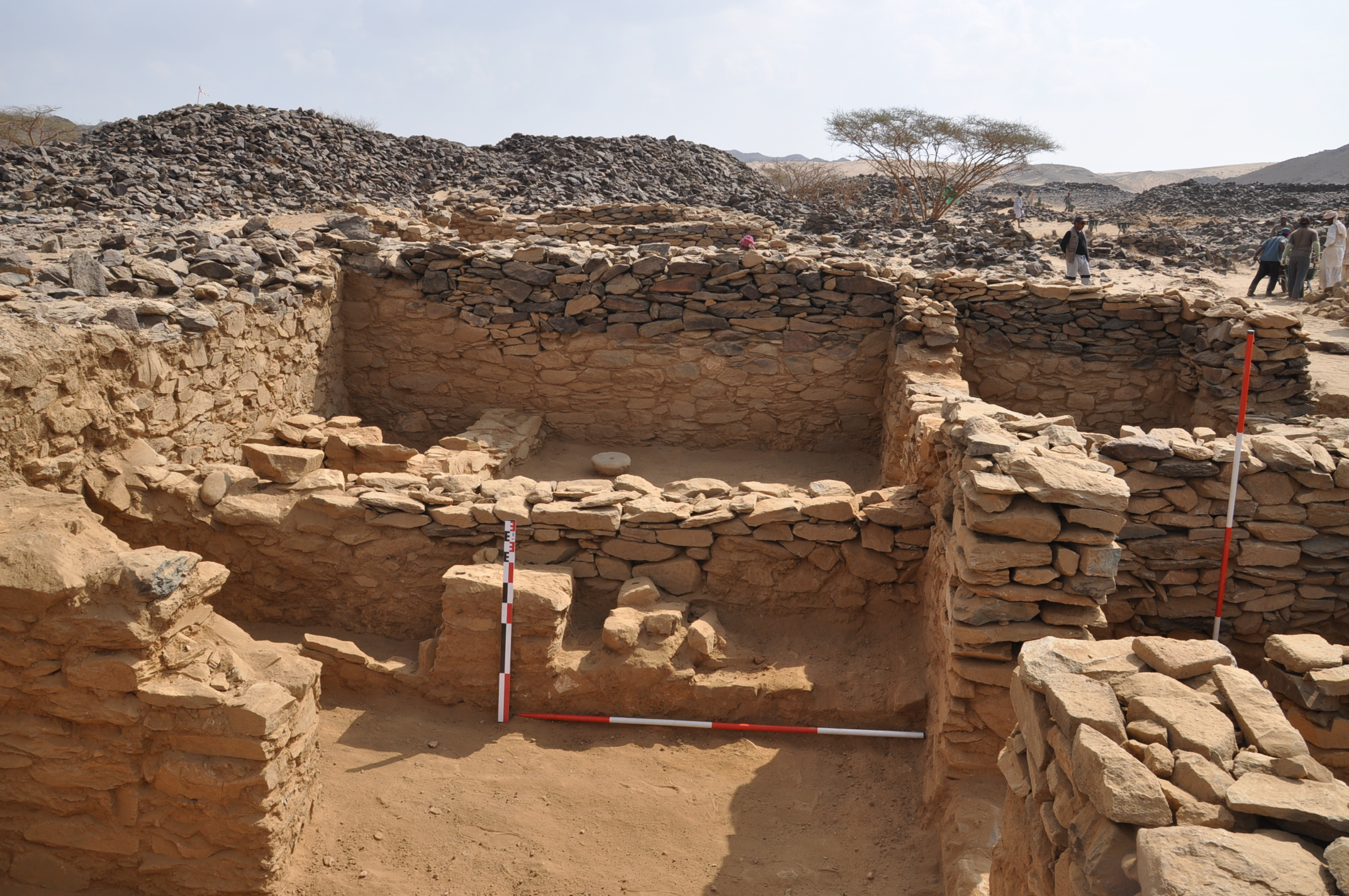 لعثور علىد إلى الفترة الاسلامية المبكرة والوسيطة.